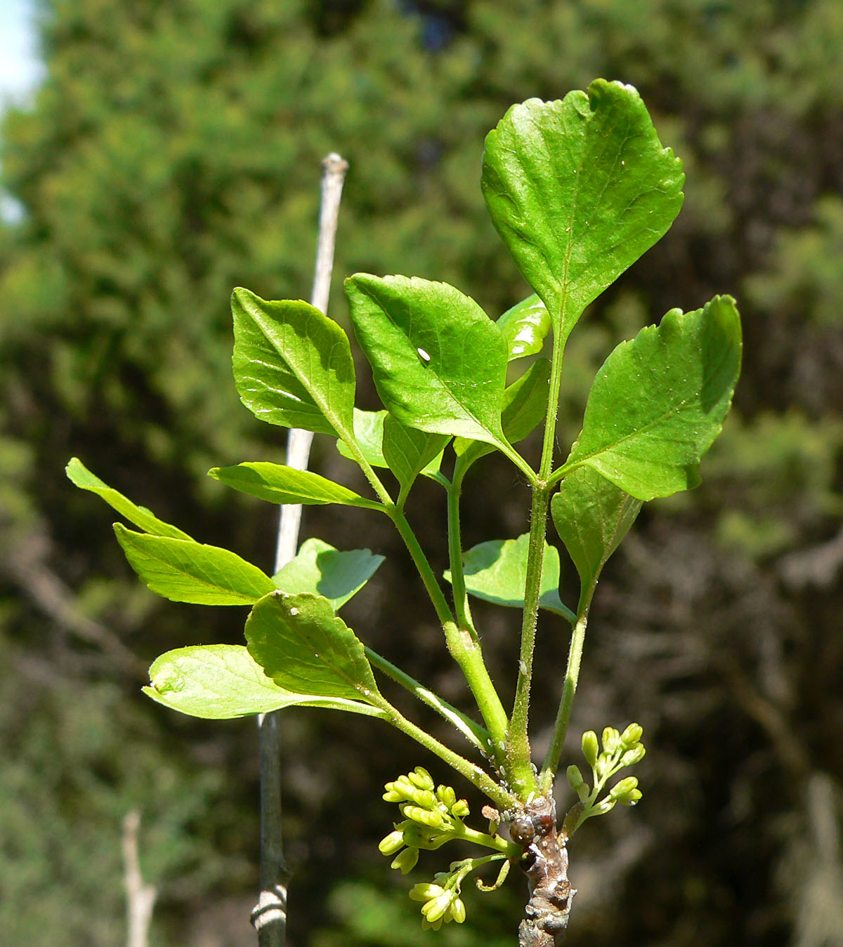 Photo of Fraxinus anomala at the Regional Parks Botanic Garden, Berkeley, California